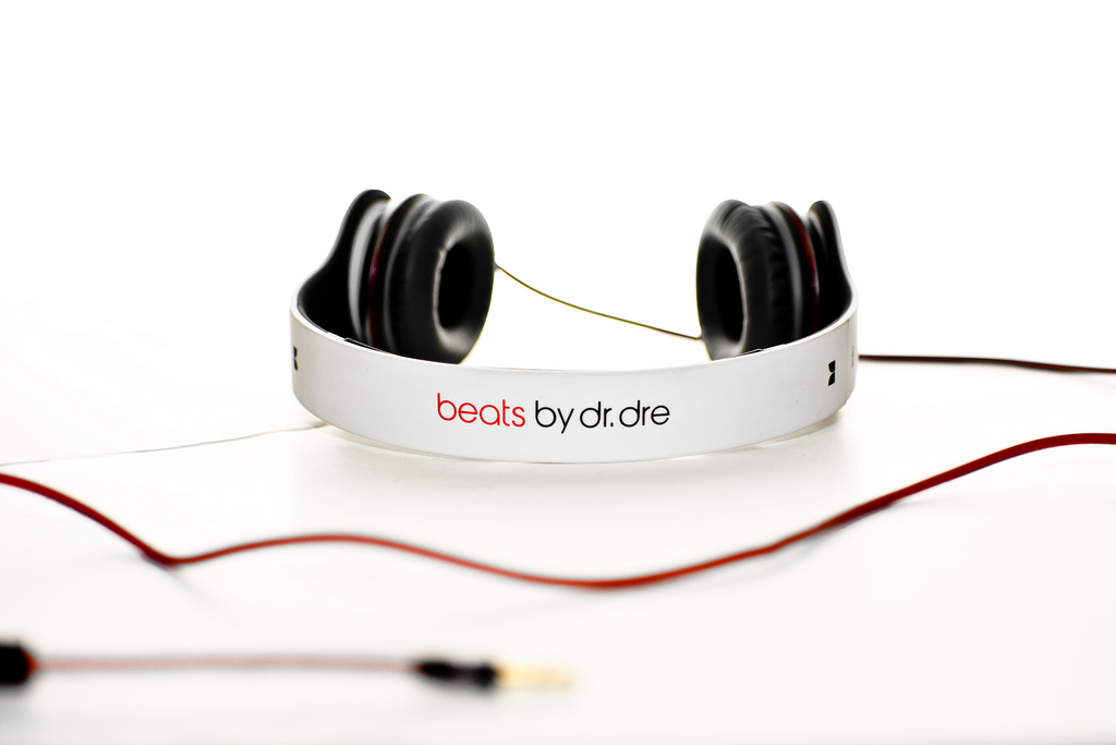 Taking a picture of my friend's Dr. Dre Beats: Solo (White) headphones because he's selling them online. Check them out at White Solo Dr. Dre Headphones Beats View On White Strobist Canon 580 EX II with 1/4 CTO gel @ 1/4 power into 28 softbox behind product. Canon 420 EZ on camera @ 1/8 power bounced into ceiling. Triggered via PW Plus II's.